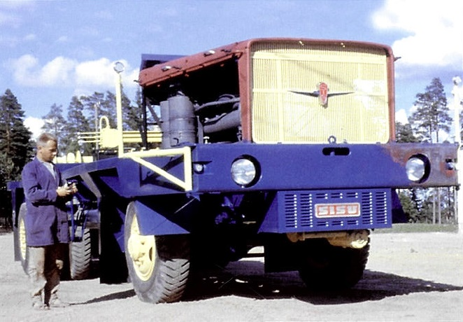 Sisu K-50SS during construction stage, still without cabin.